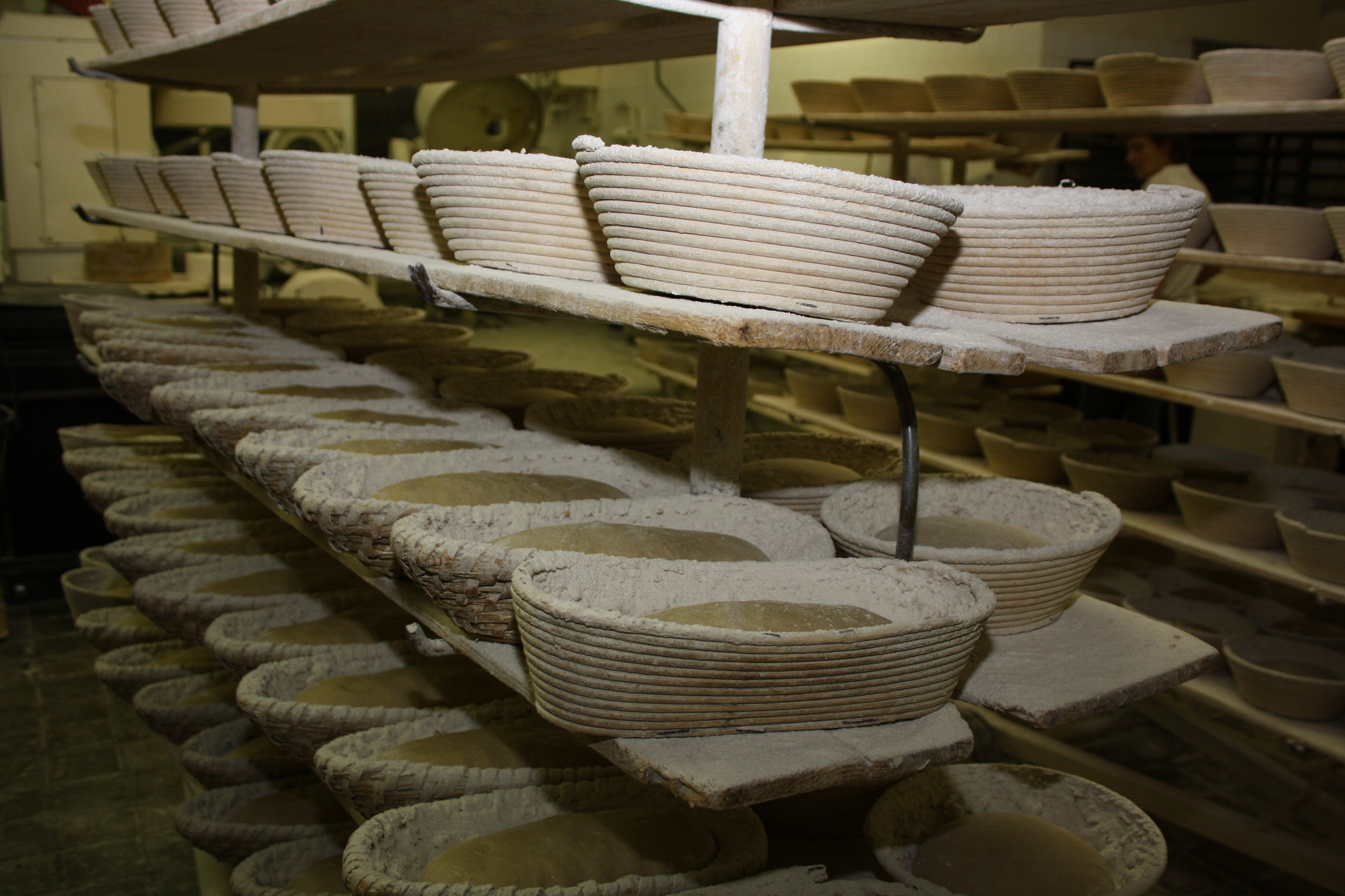 Production process of bread, Czech Republic This photograph was taken with a DSLR from WMCZ's Camera grant. This picture was taken and/or got within the scope of the 'Acquiring scientific and specialized pictures' grant.